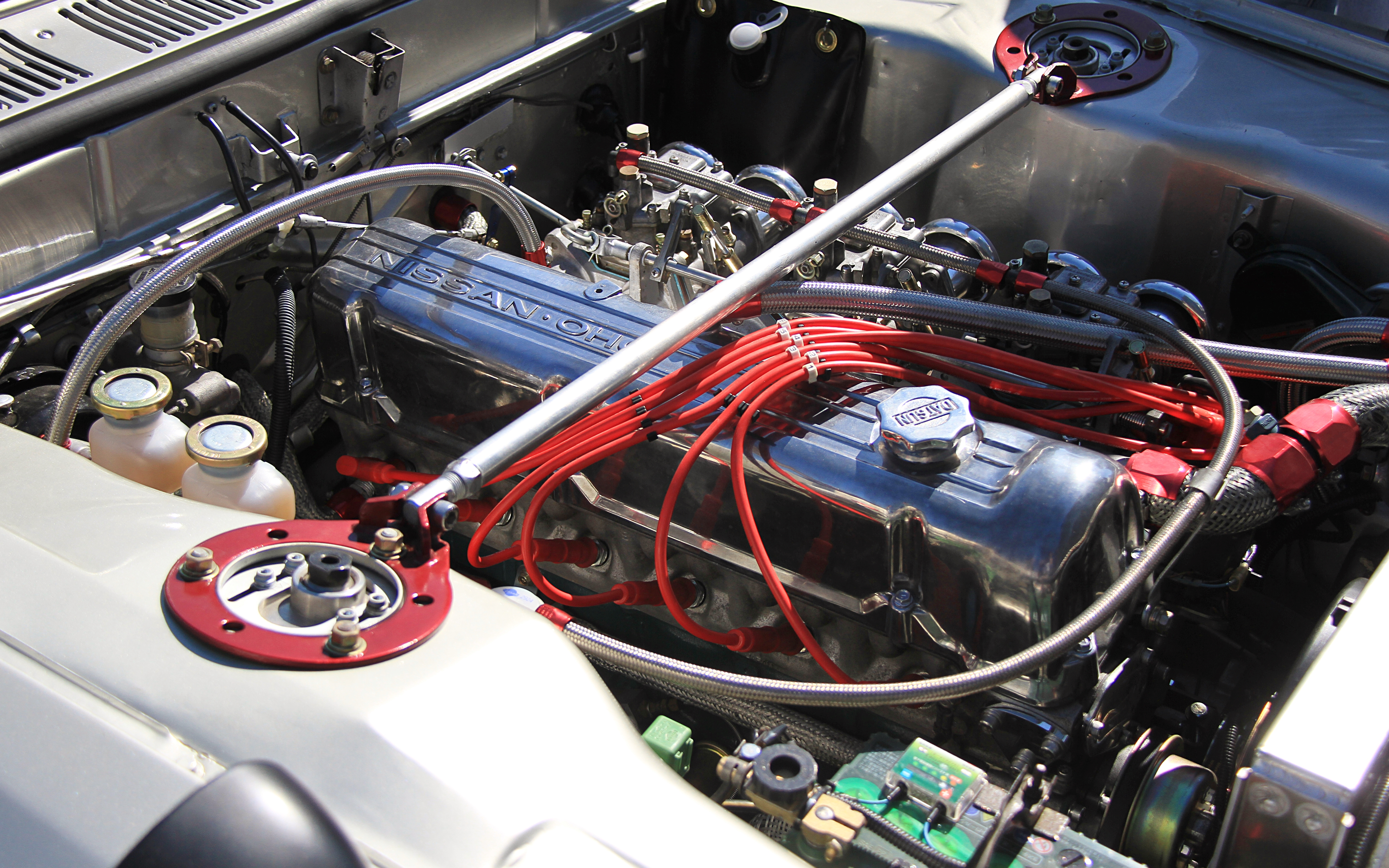 Nissan L20 engine